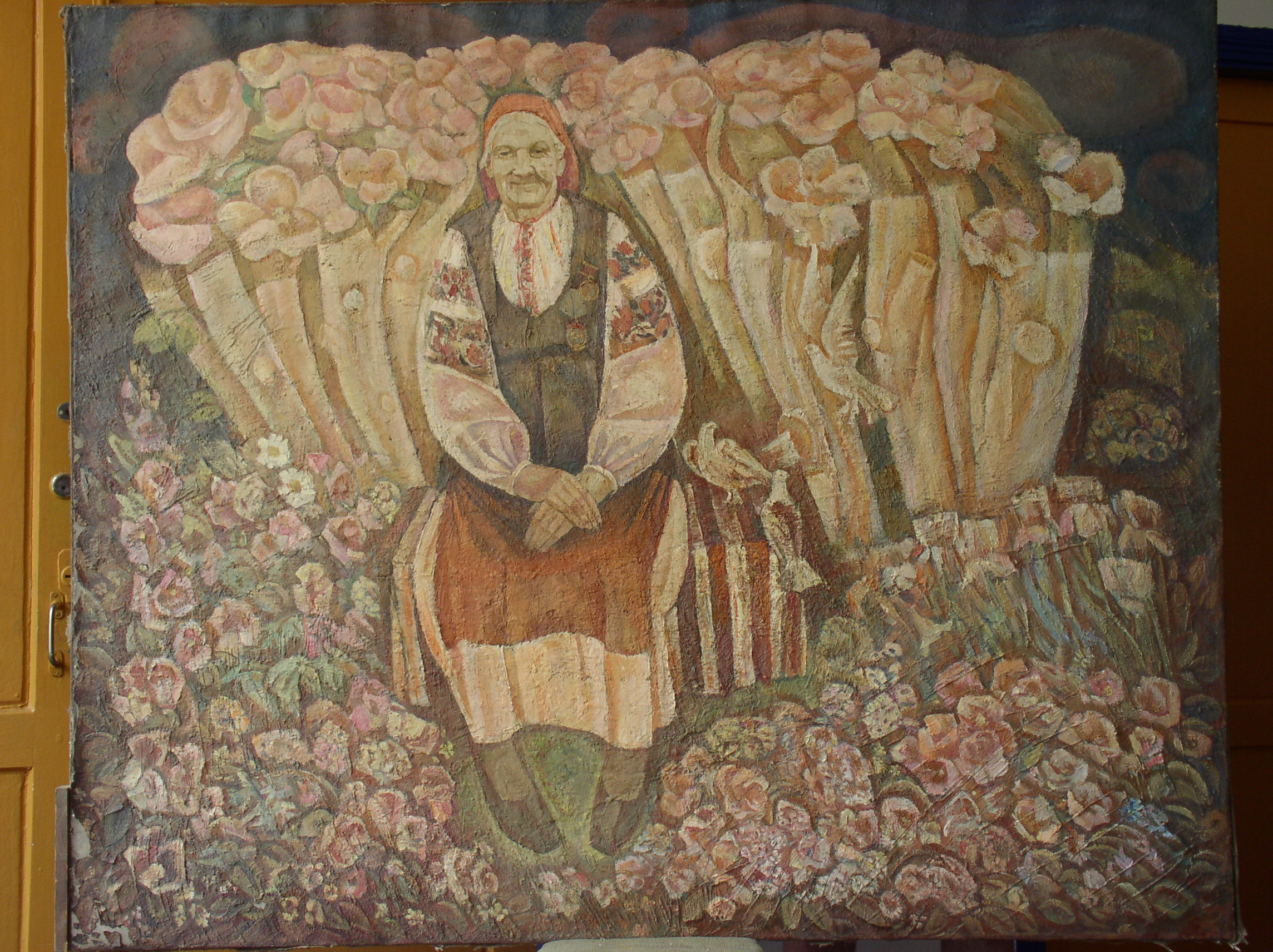 Chornyi Mykhaylo. Nastya Prysyazhnyuk, the Podolian folklorist. 2000. - oil, canvas. - 150x200 cm.